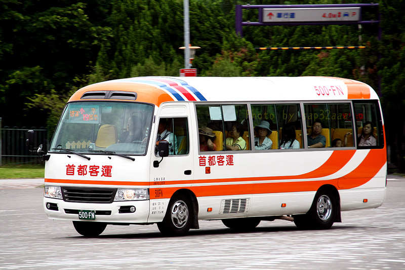 Capital Bus Route:S19 Toyota Coaster 中文（台灣）: 首都客運 小19 500-FN Toyota Coaster